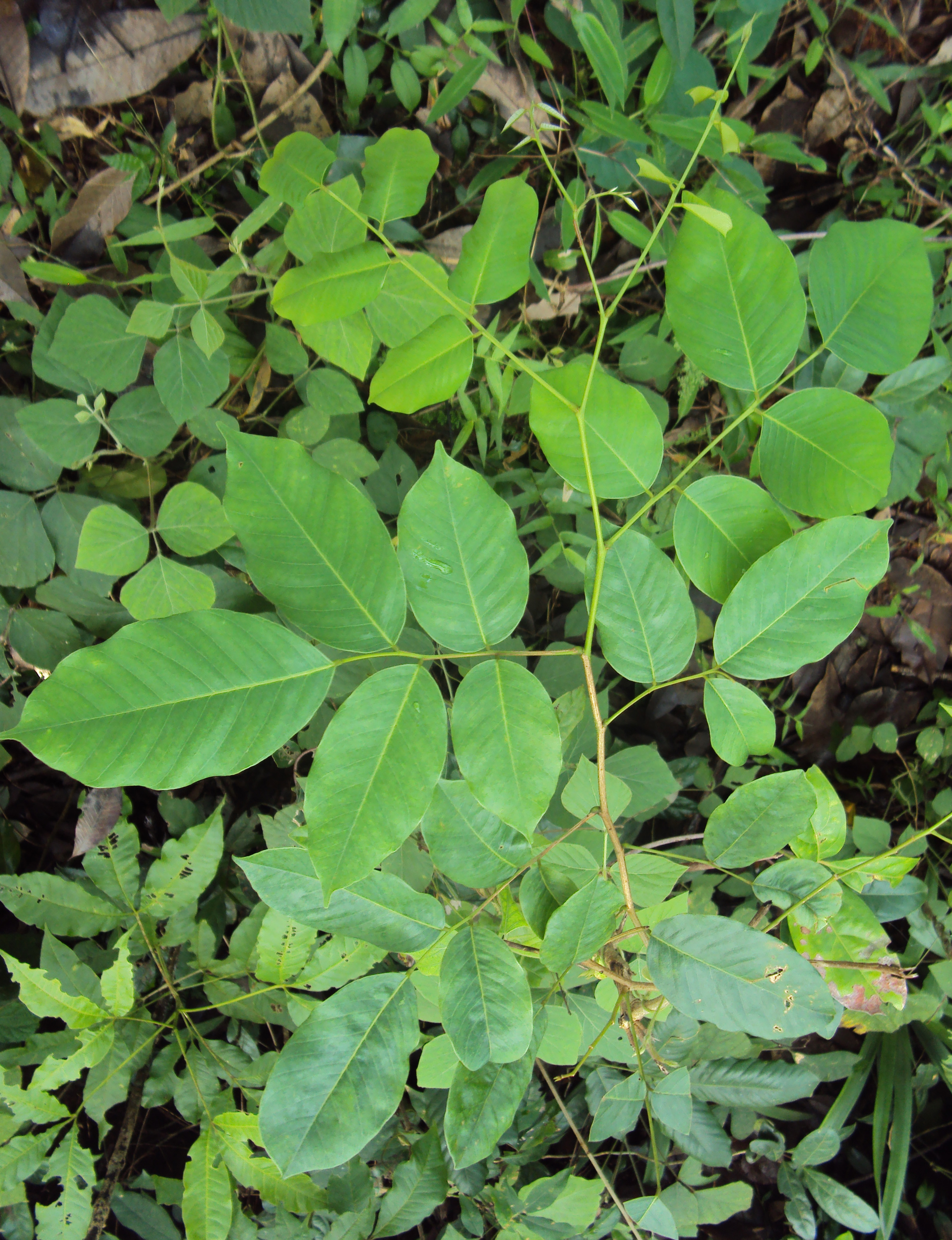 Pterocarpus marsupium leaves - വേങ്ങയുടെ ഇലകള്‍